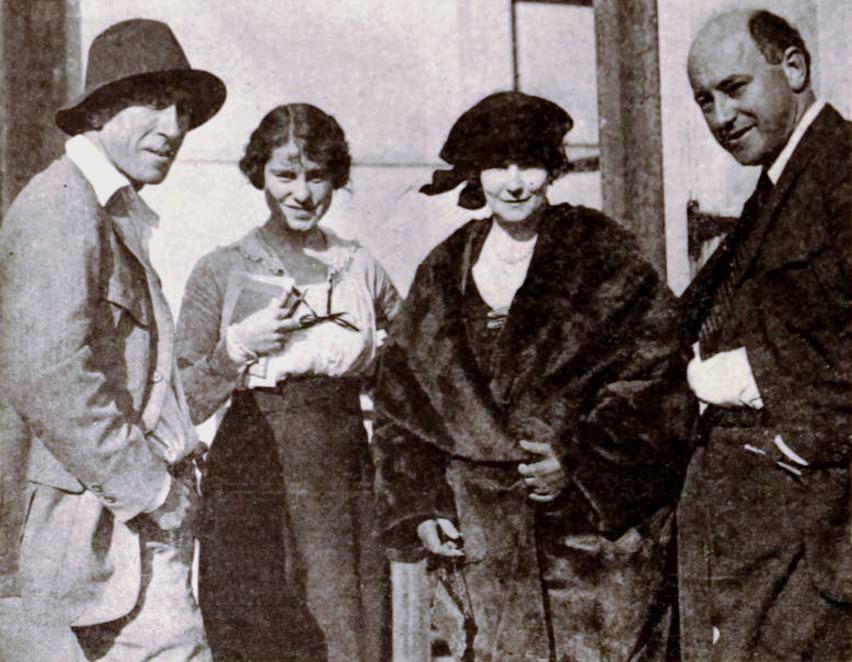 Director William C. deMille, screenwriters Jeanie MacPherson and Elinor Glyn, and director Cecil B. DeMille, on page 36 of the December 11, 1920 Exhibitors Herald.